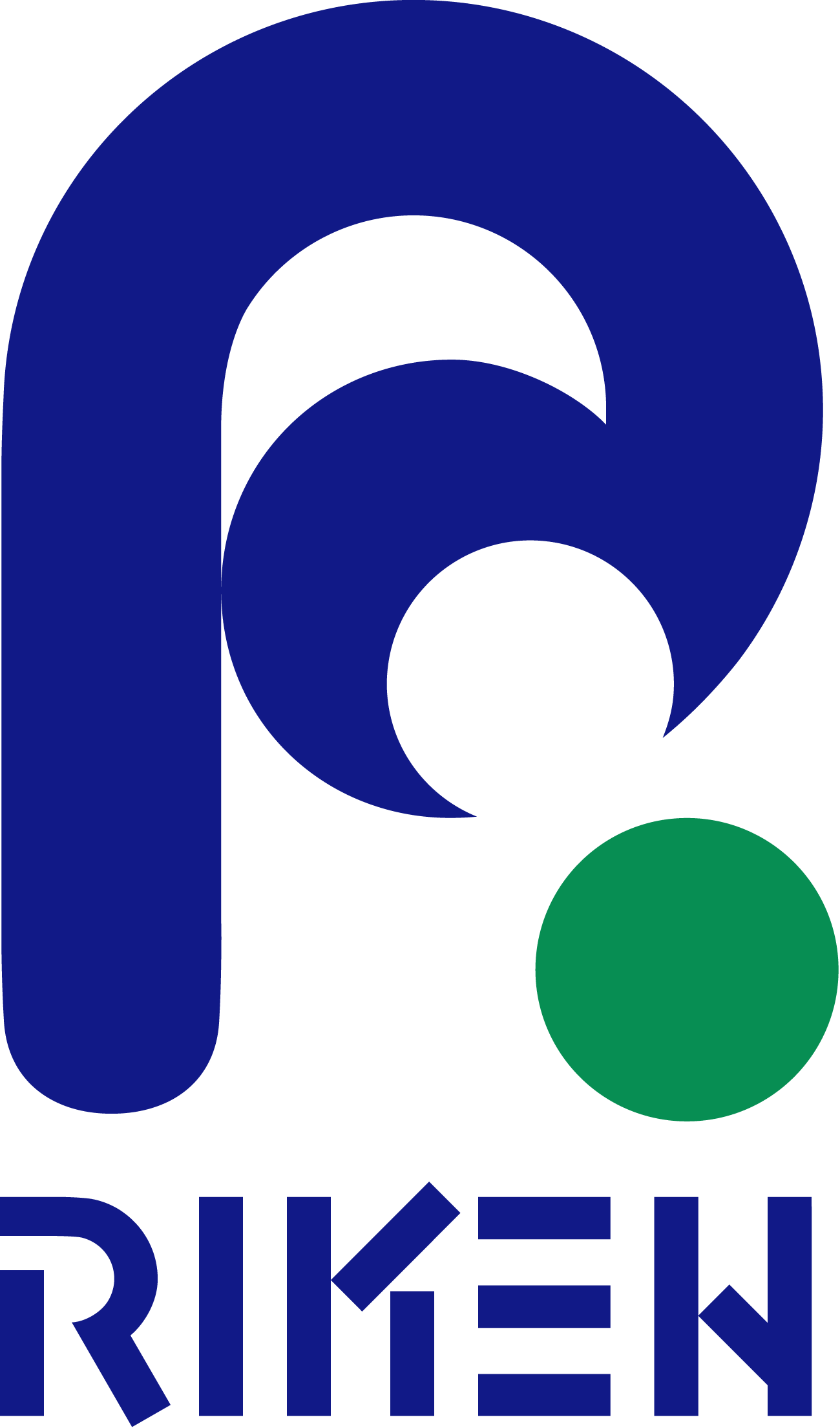 Logo of RIKEN, designed by Mitsuo Katsui[1]